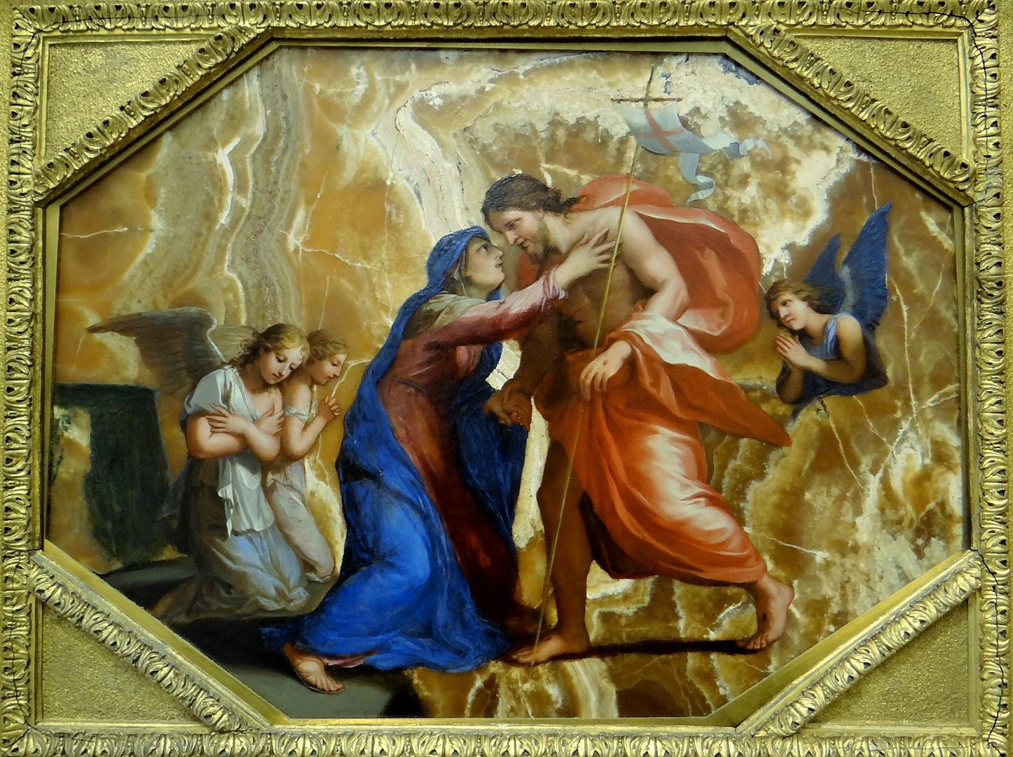 The Risen Crist Appearing to the Virgin, about 1640, Oil on alabaster mounted on slate, Jacques Stella (1596-1657)